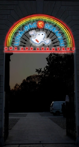 Qaraqalpaqsha: Cleaned up cc-sa image, original from robert siemens